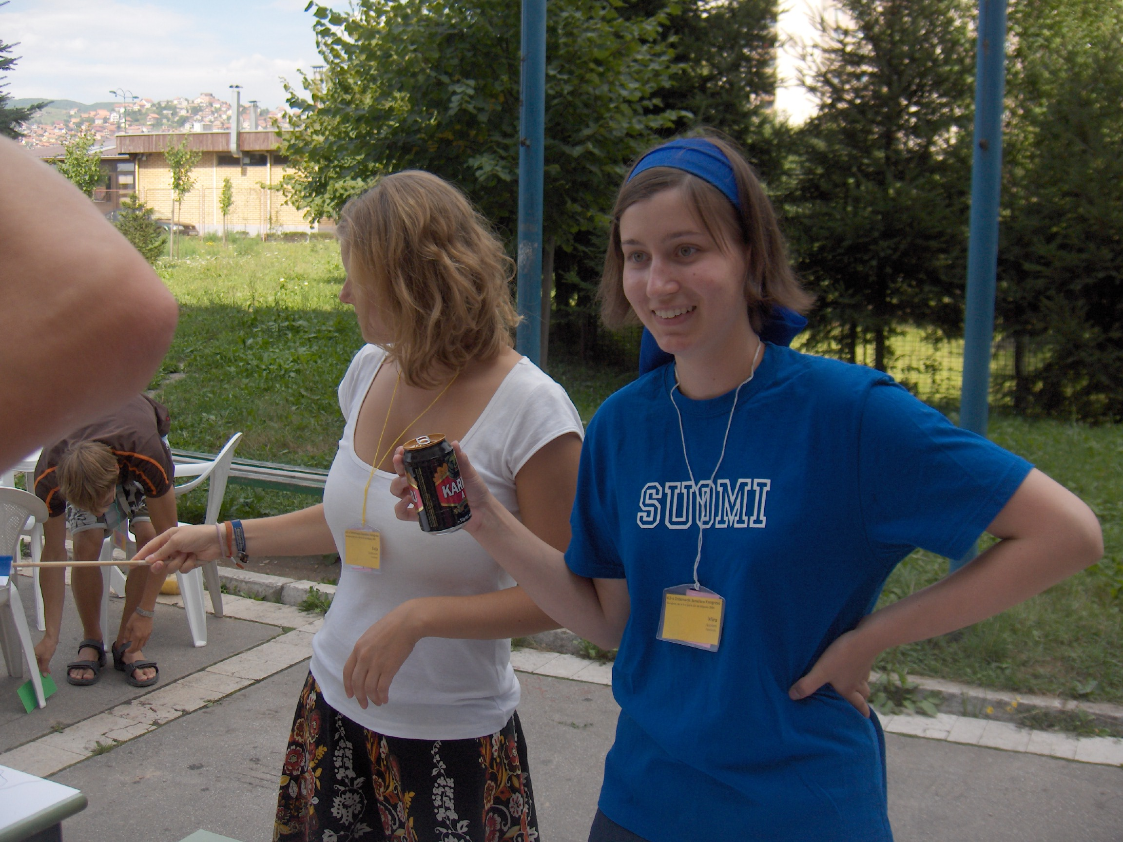 Finland presented at IJK 2006